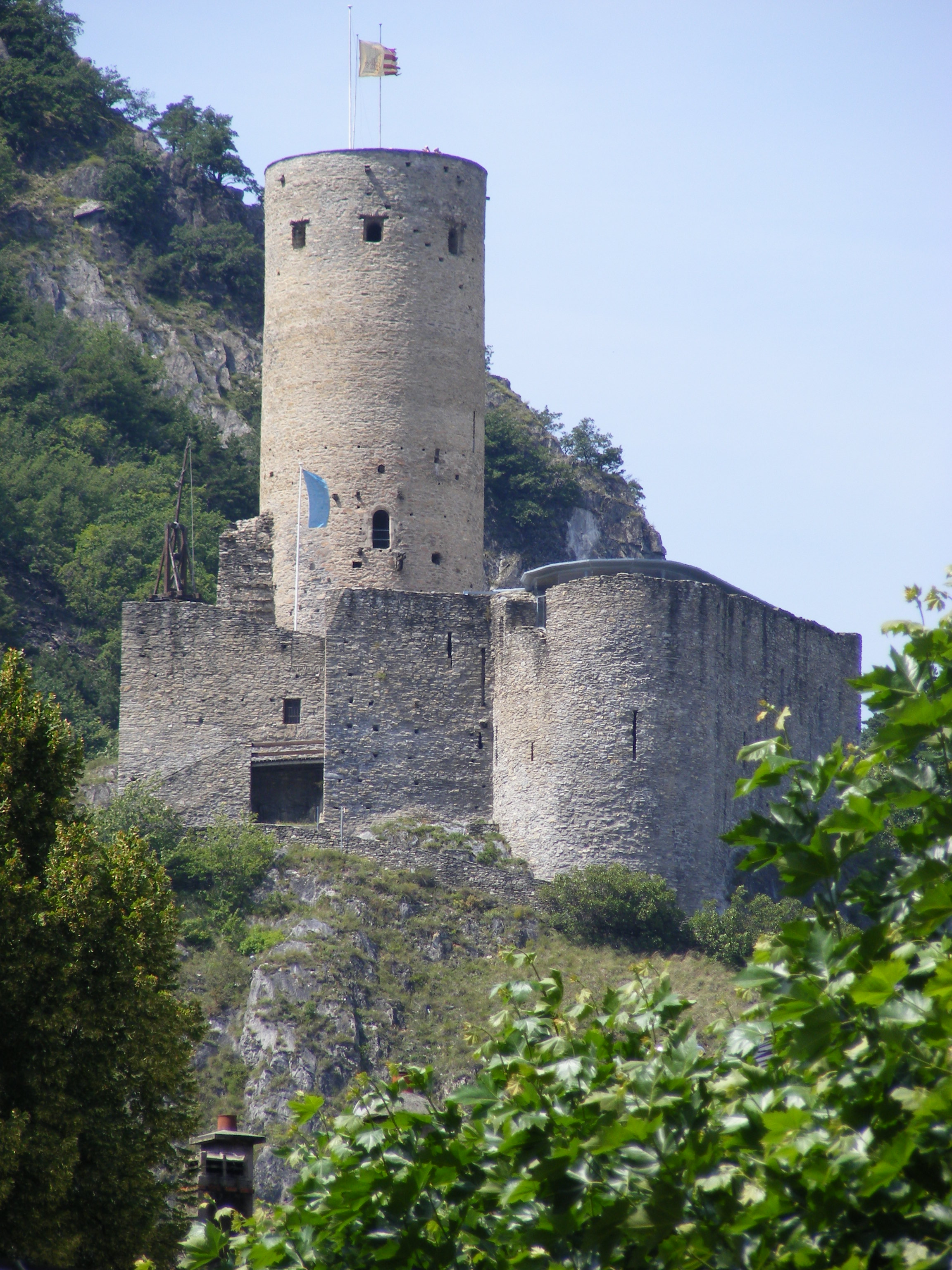 Batiaz castle, taken from the town centre